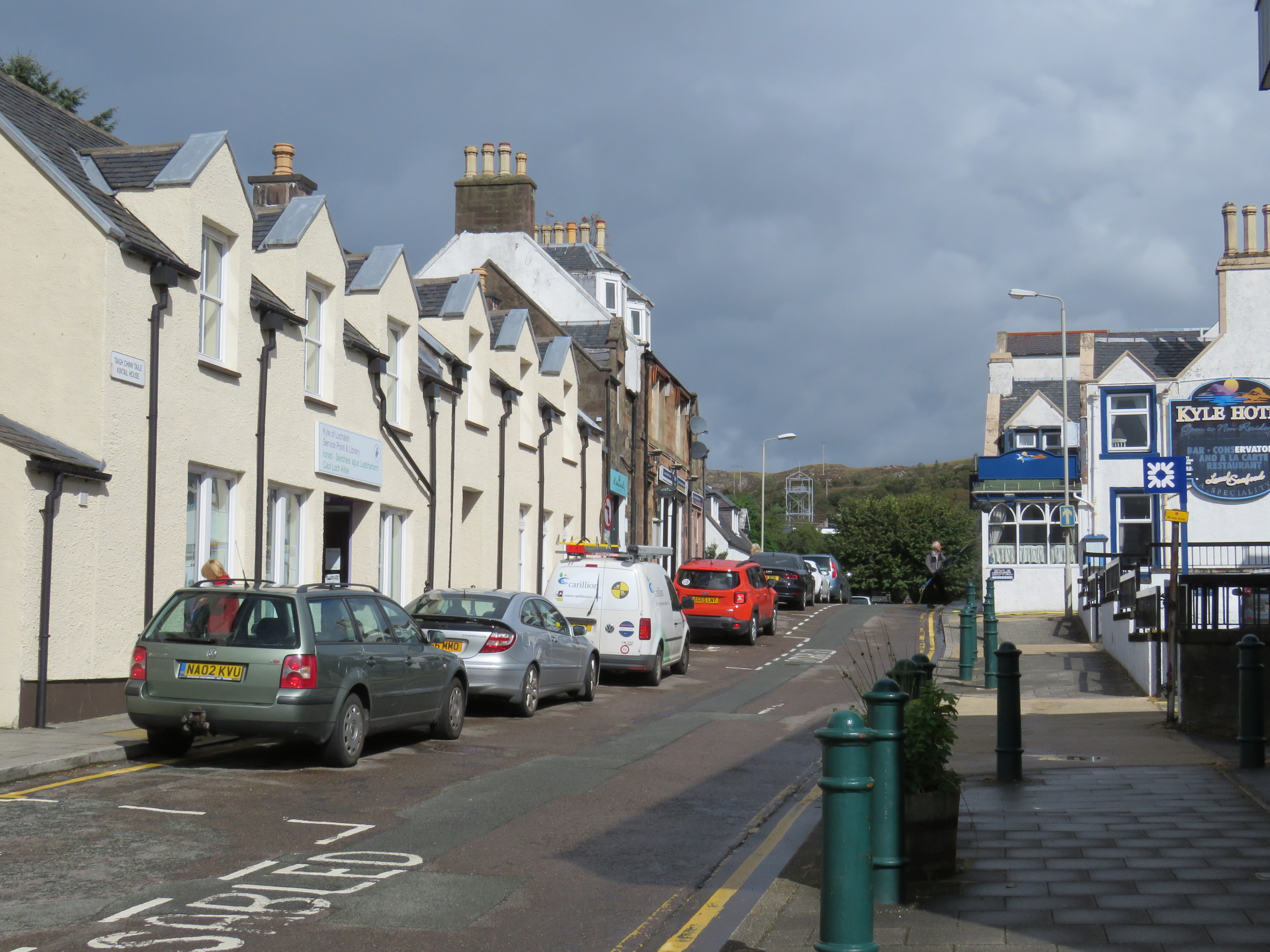 main street, kyle of lochalsh, Scotland